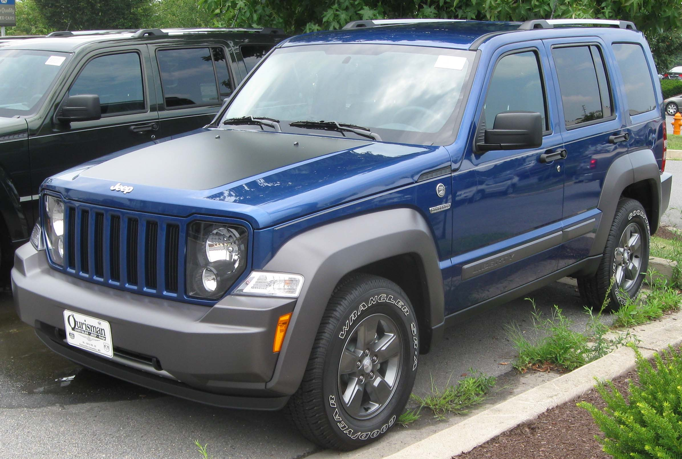 Jeep Liberty photographed in Clarksville, Maryland, USA.